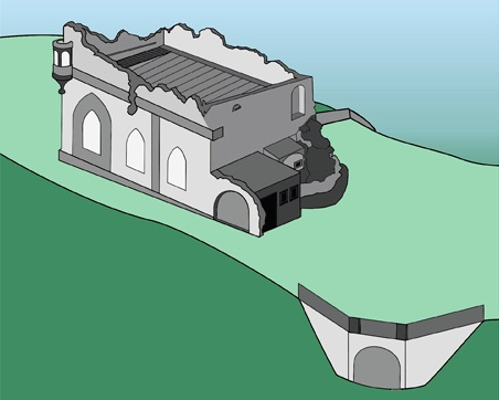 Isometric view of the ruin around 1790